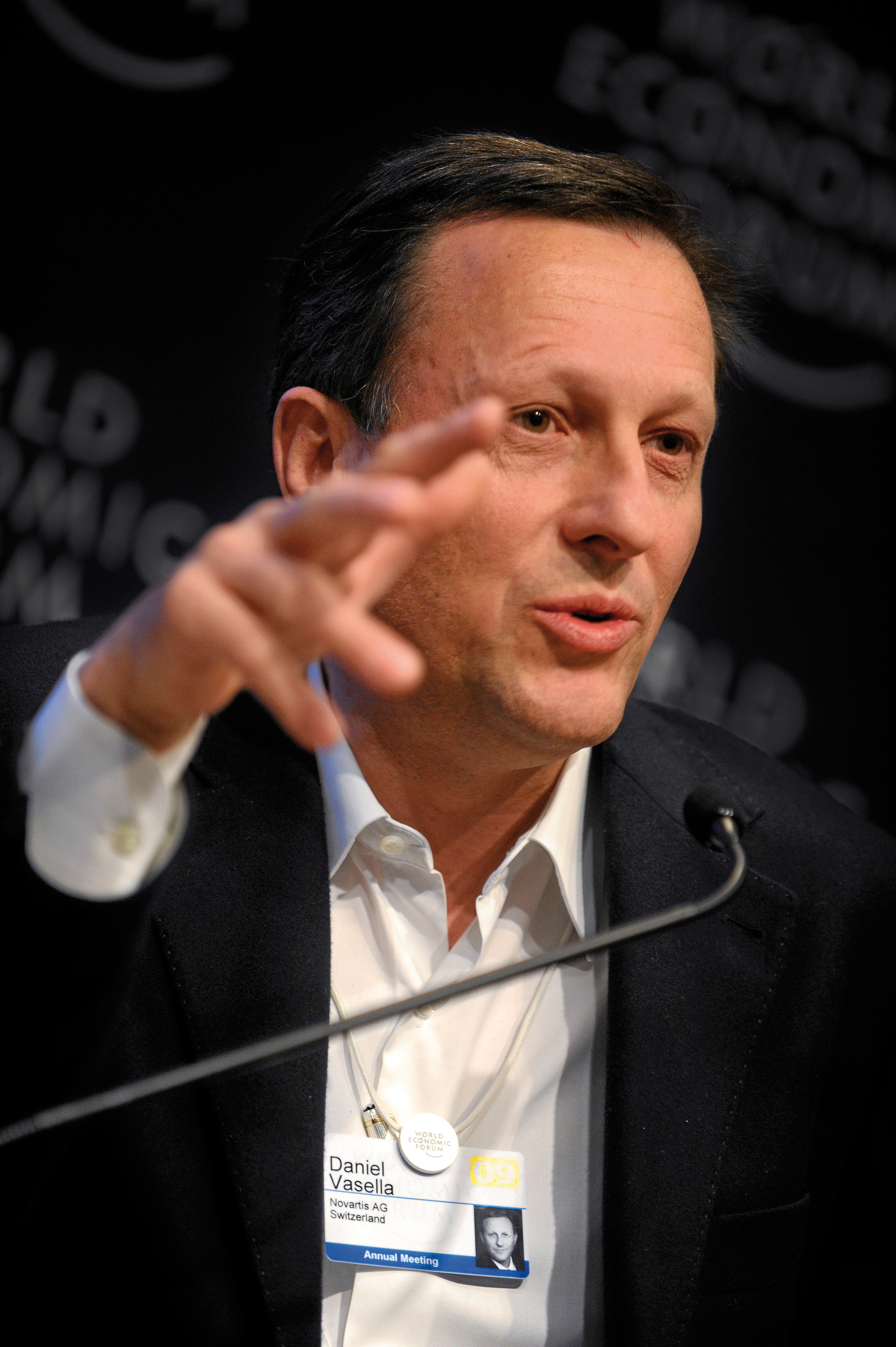 DAVOS-KLOSTERS/SWITZERLAND, 31JAN09 - Daniel Vasella, Chairman and Chief Executive Officer, Novartis, Switzerland, speaks during the session 'Completing the Malaria Mission' at the Annual Meeting 2009 of the World Economic Forum in Davos, Switzerland, January 31, 2009. Copyright by World Economic Forum by Michael Wuertenberg